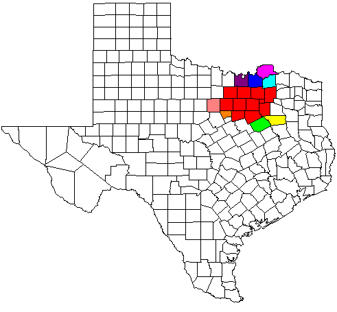 Component parts of the Dallas-Fort Worth, TX-OK Combined Statistical Area; created with the GIMP. Made by User:Acntx. Modified by Yassie on March 25, 2018. The nine components of the CSA are colored separately: Dallas-Fort Worth-Arlington, TX Metropolitan Statistical Area: red Sherman-Denison, TX Metropolitan Statistical Area: blue Athens, TX Micropolitan Statistical Area: yellow Granbury, TX Micropolitan Statistical Area: orange Corsicana, TX Micropolitan Statistical Area: light green Durant, OK Micropolitan Statistical Area: light purple Gainesville, TX Micropolitan Statistical Area: purple Bonham Micropolitan Statistical Area: light blue Mineral Wells, TX Micropolitan Statistical Area: rose